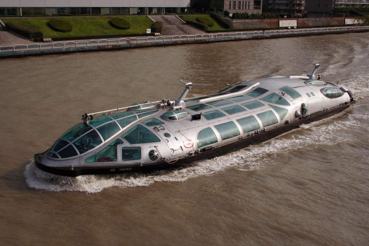 Tokyo Cruise Ship Himiko on Sumida River, Tokyo.